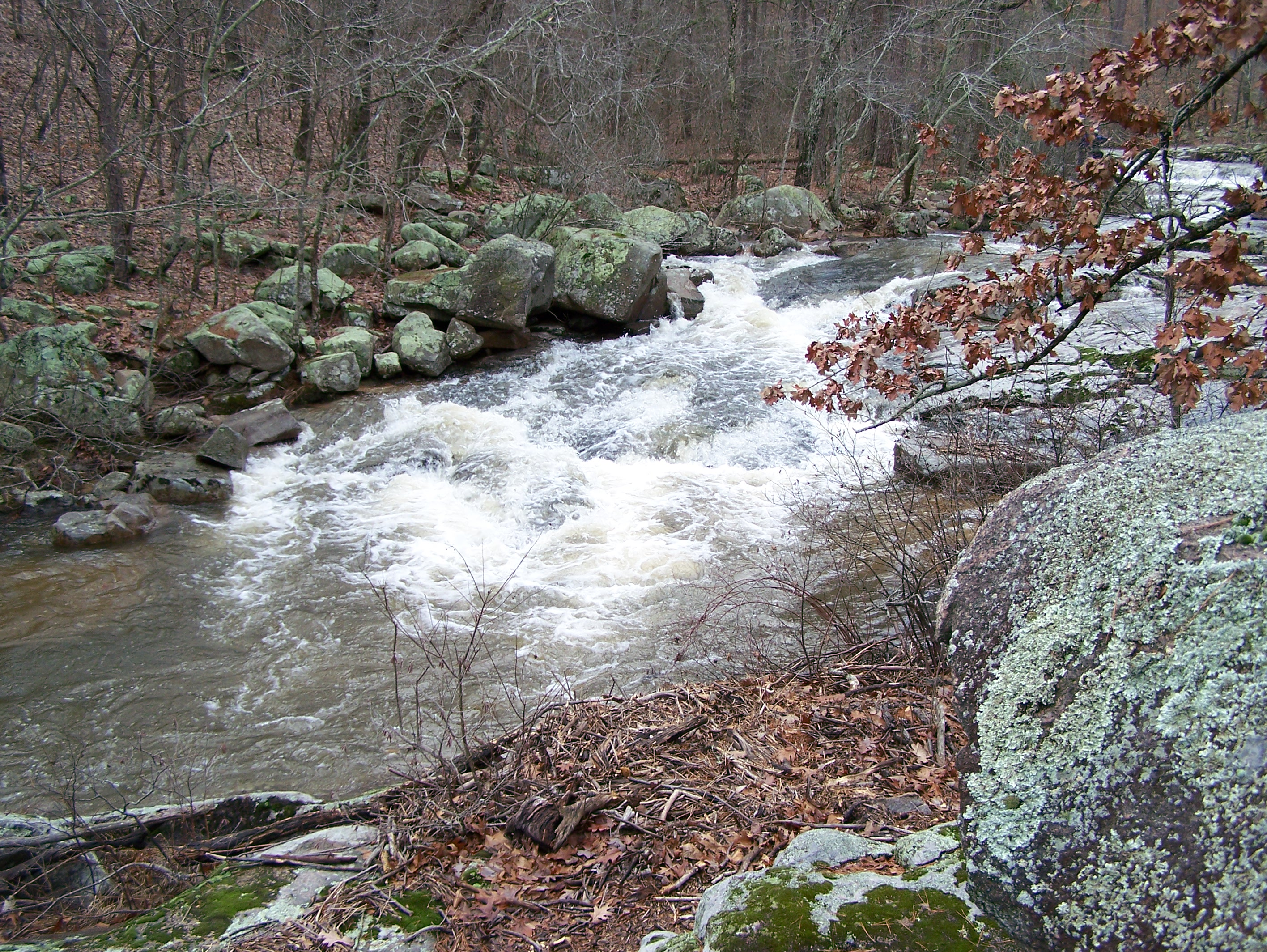 Pickle Creek at Hawn State Park in Ste. Genevieve, Missouri (USA).